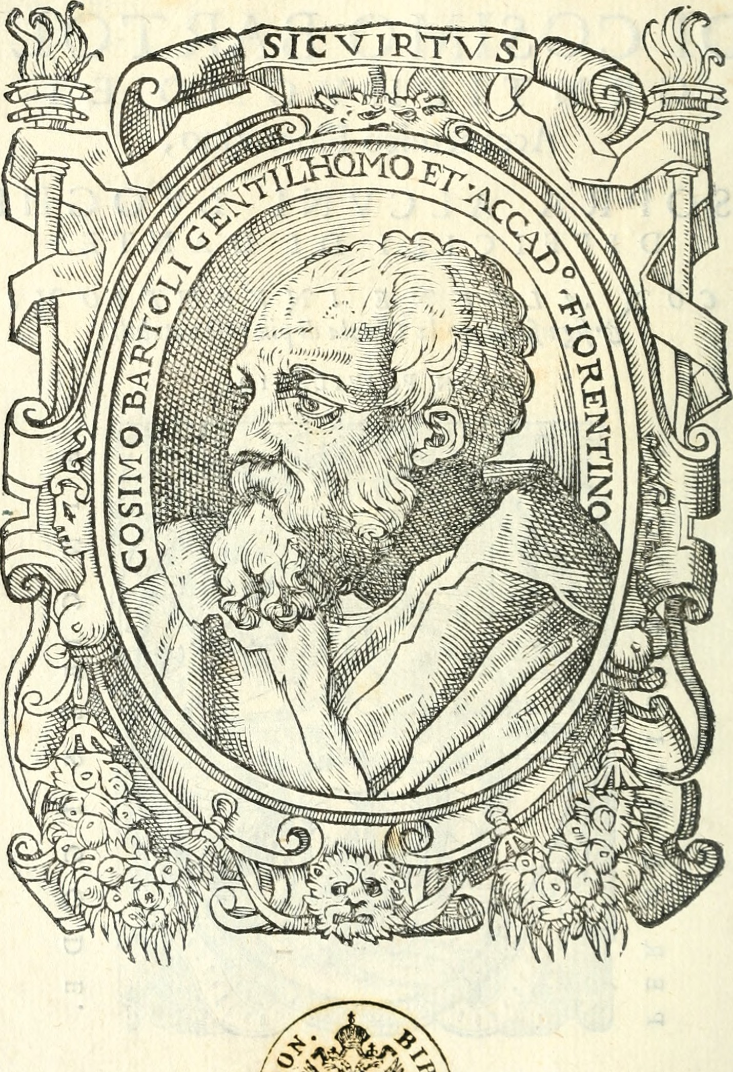 Title: Ragionamenti accademici .. Year: 1567 (1560s) Authors: Bartoli, Cosimo, 1503-1572 Subjects: Dante Alighieri, 1265-1321 Publisher: Venetia, F. de Franceschi Text Appearing Before Image: I \ Text Appearing After Image: '